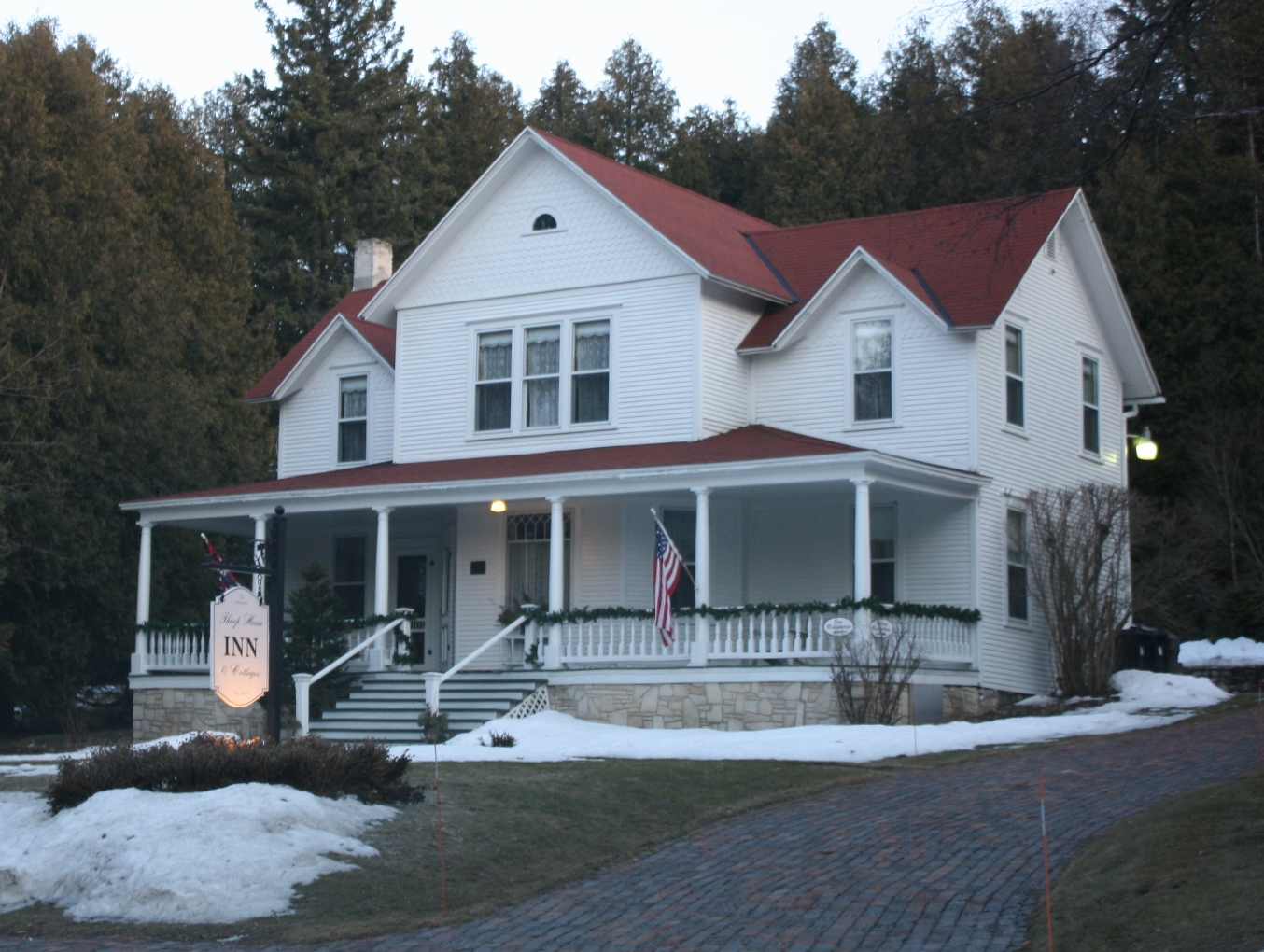 The Freeman and Jesse Thorp House and Cottages in Door County, Wisconsin, listed on the National Register of Historic Places.